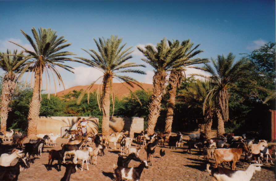 Ribeira de Vinha, São Vicente Island, Cape Verde. Nha Maria's farm